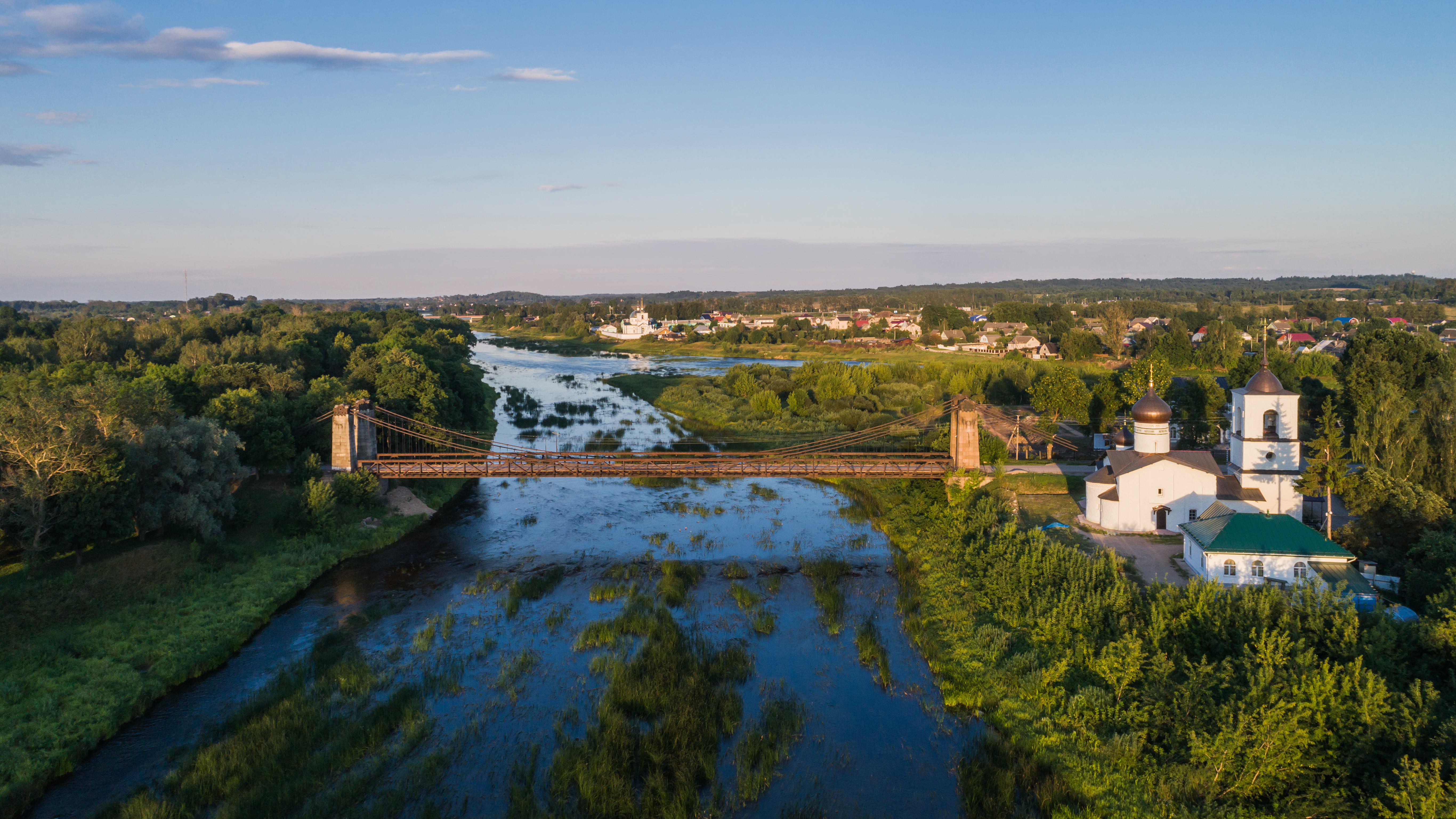 Aerial view – Northern Chain Bridge and Saint Nicholas Church in Ostrov, Pskov Oblast, Russia.